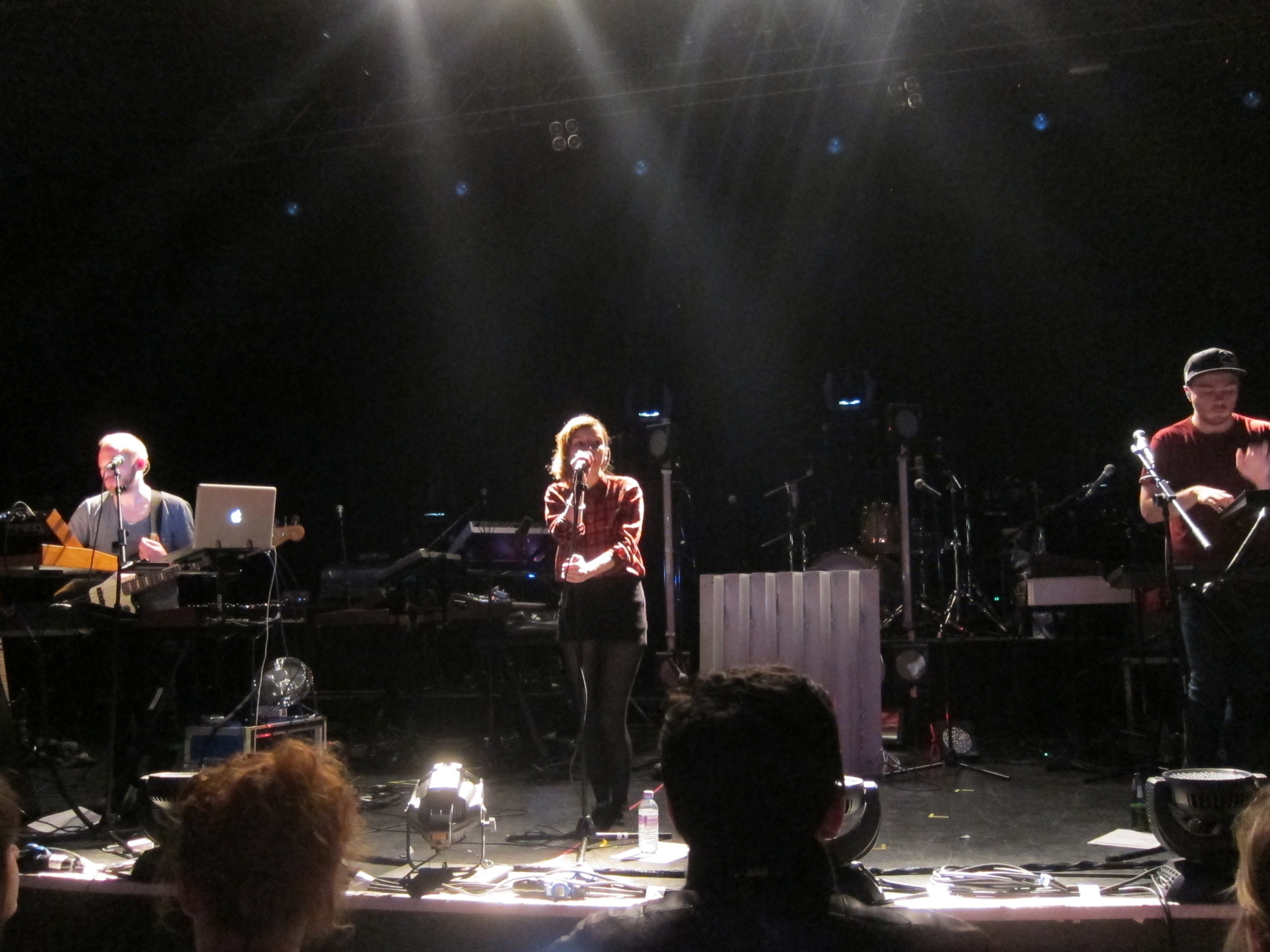 Chvrches live at HMV Forum in 2012 (Iain Cook on the right, Lauren Mayberry in center, Martin Doherty on the right)